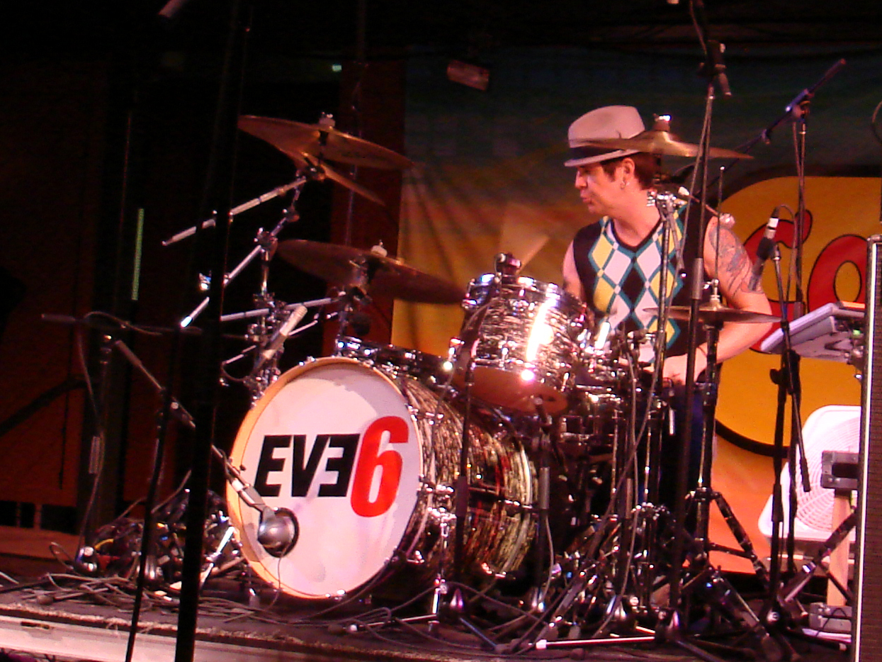 Tony Fagenson Drumming for Eve 6 at the 2008 Wisconsin State Fair.